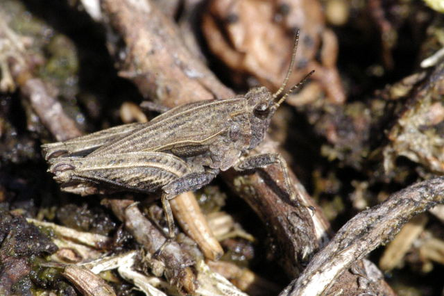 Picture taken in Commanster, Belgian High Ardennes . Species: Tetrix undulata